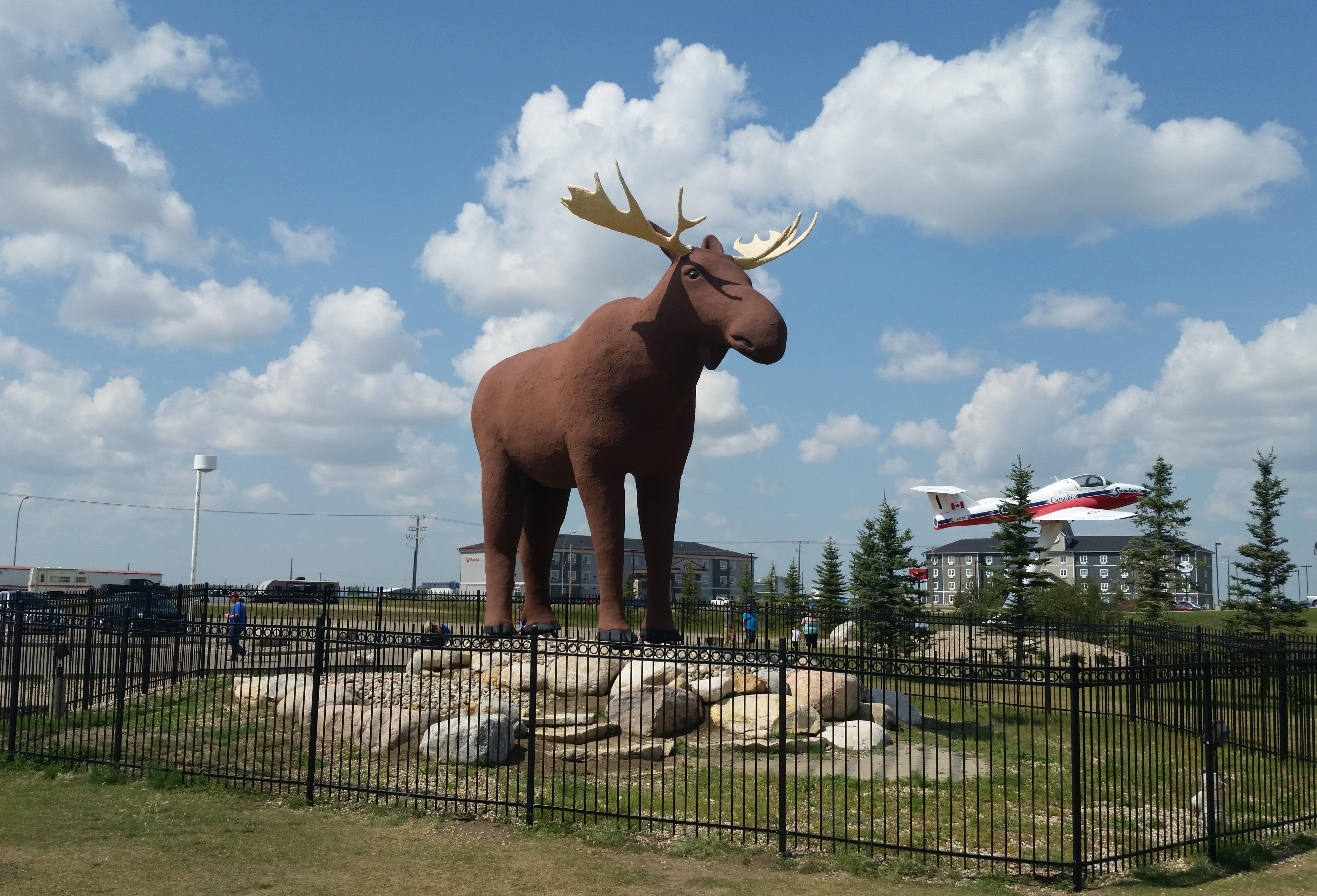 Mac the Moose as seen in August 2018.